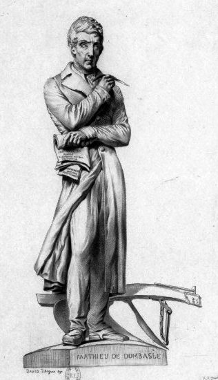 French agronomist Mathieu de Dombasle (1777-1843) by David d'Angers (1788-1856)